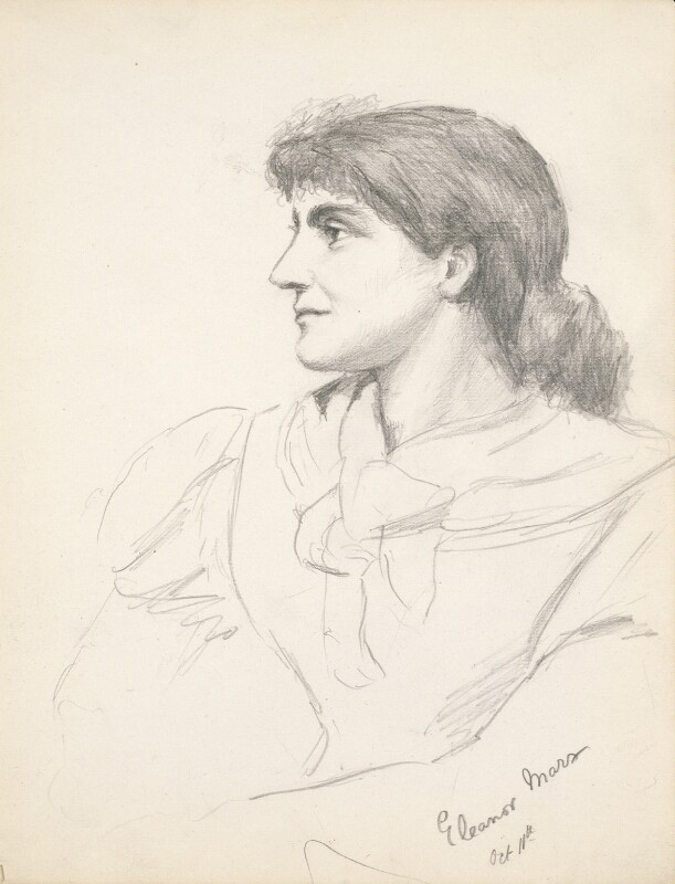 (Jenny Julia) Eleanor Marx (later Marx-Aveling) by Grace Black (later Grace Human) pencil, 1881 8 1/8 in. x 6 1/2 in. (207 mm x 165 mm) Purchased, 2006 Primary Collection